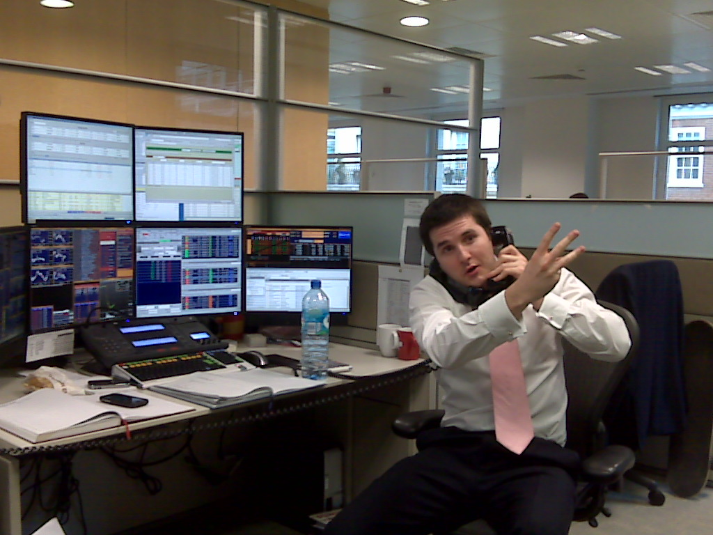 Stockbroker